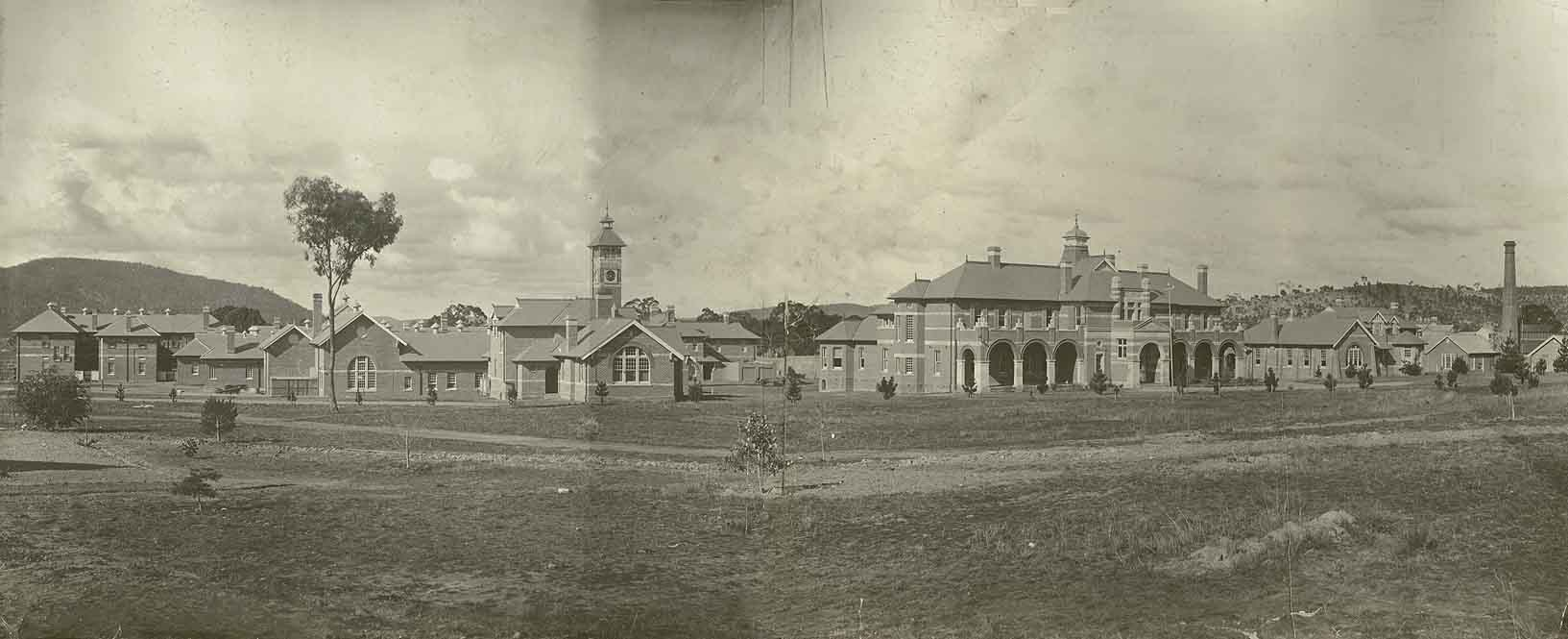 Title: Kenmore Hospital for the Insane/Kenmore Mental Hospital/Kenmore Hospital Dated: No date Digital ID: 4346_a020_a020000002 Rights: We'd love to hear from you if you use our photos/documents. Many other photos in our collection are available to view and browse on our website using Photo Investigator.